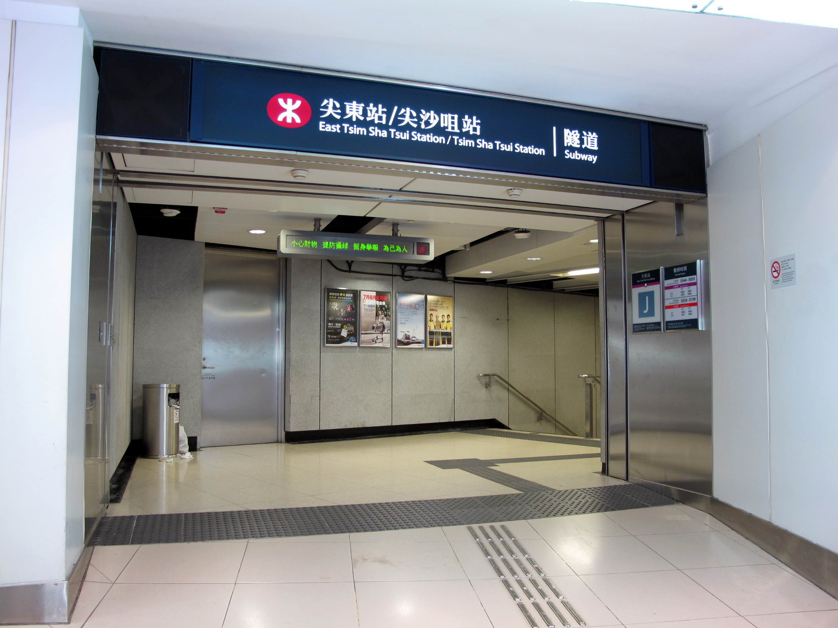 East Tsim Sha Tsui Station Exit J 尖東站J出口